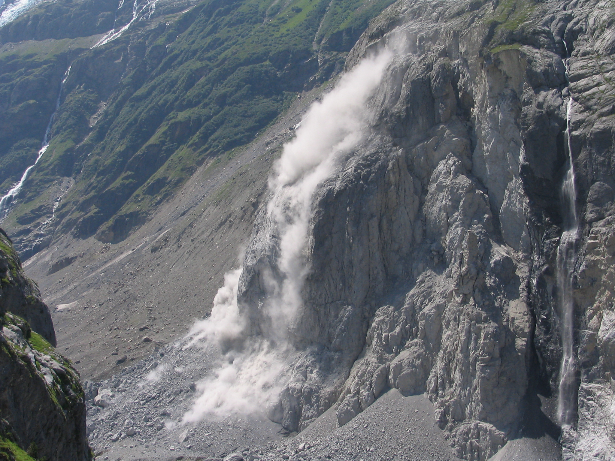 Smaller rockslide / rock demolition on the east side of the Eiger (Bern, Switzerland), on the Lower Grindelwald Glacier